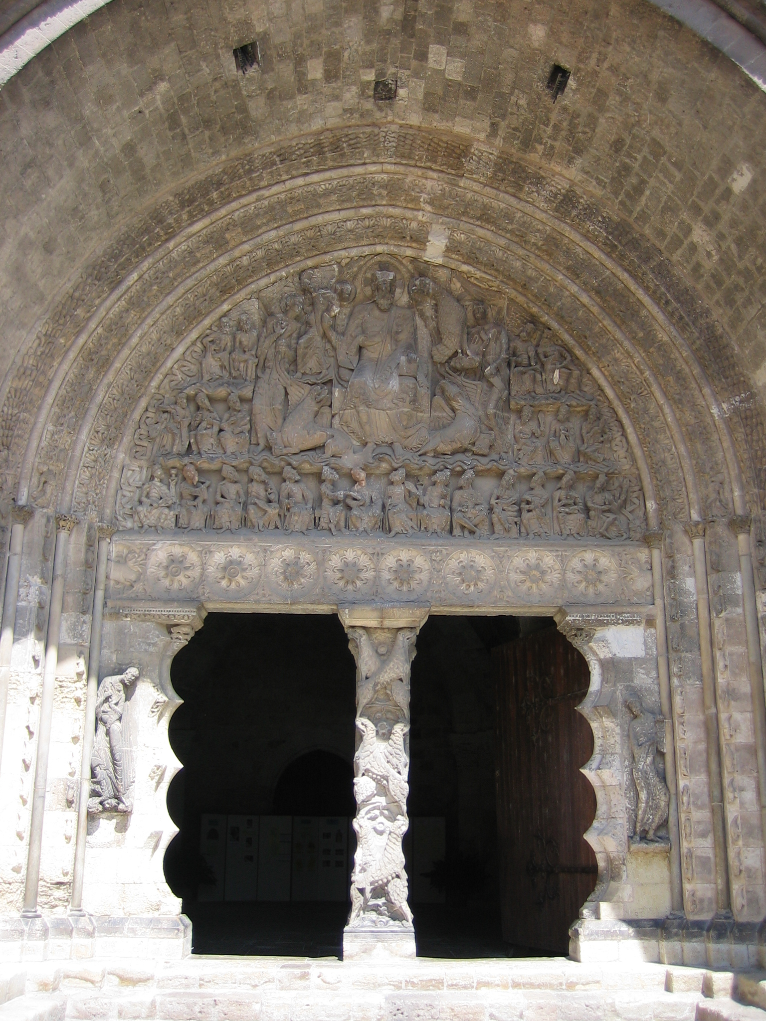 Moissac Abbey, Portal